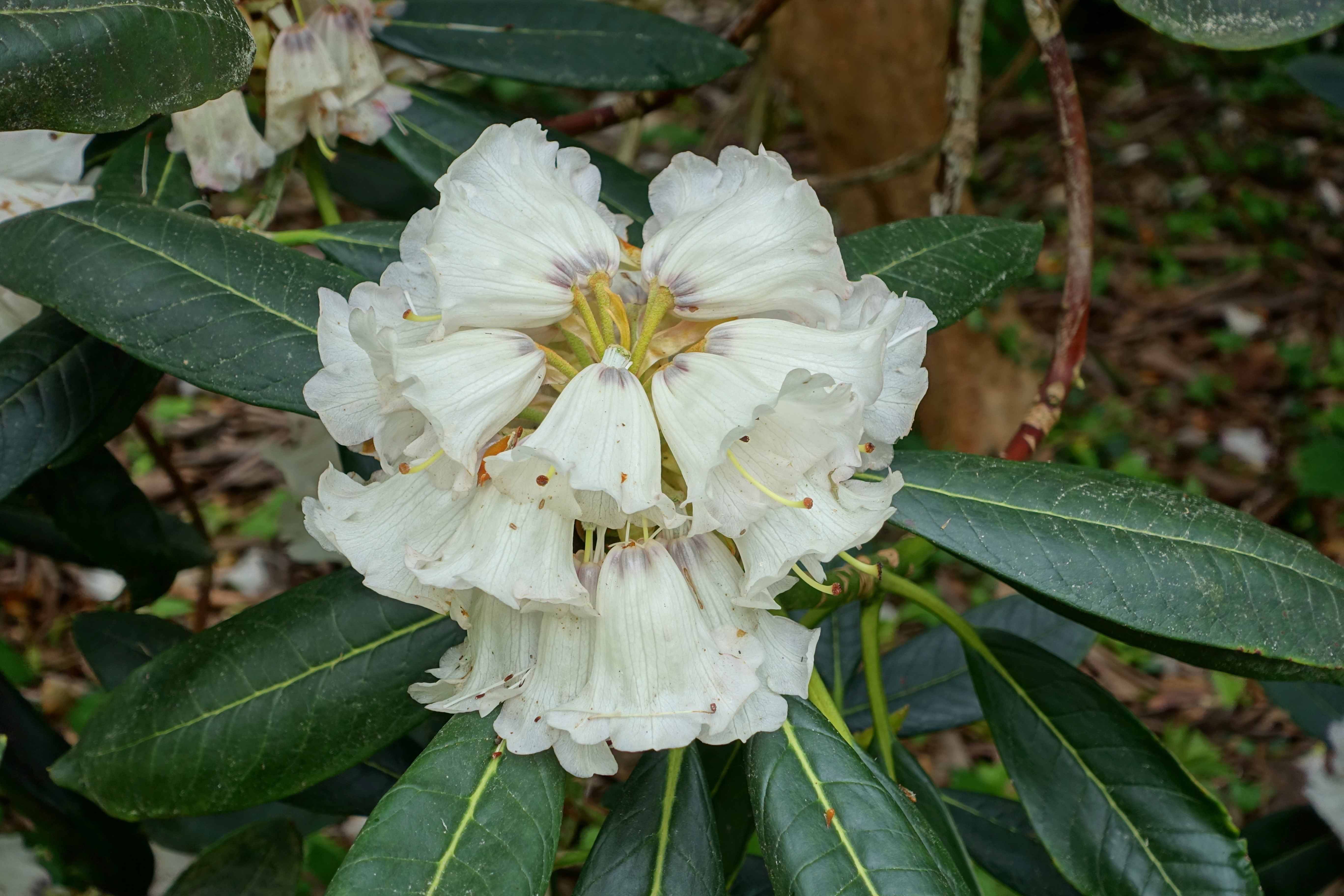 Horticultural specimen in Sir Harold Hillier Gardens - Romsey, Hampshire, England.